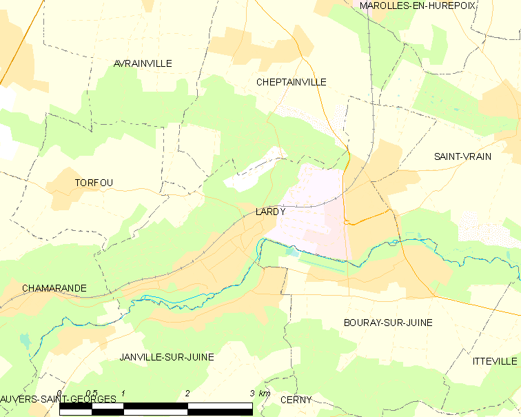 Map of French municipality Lardy